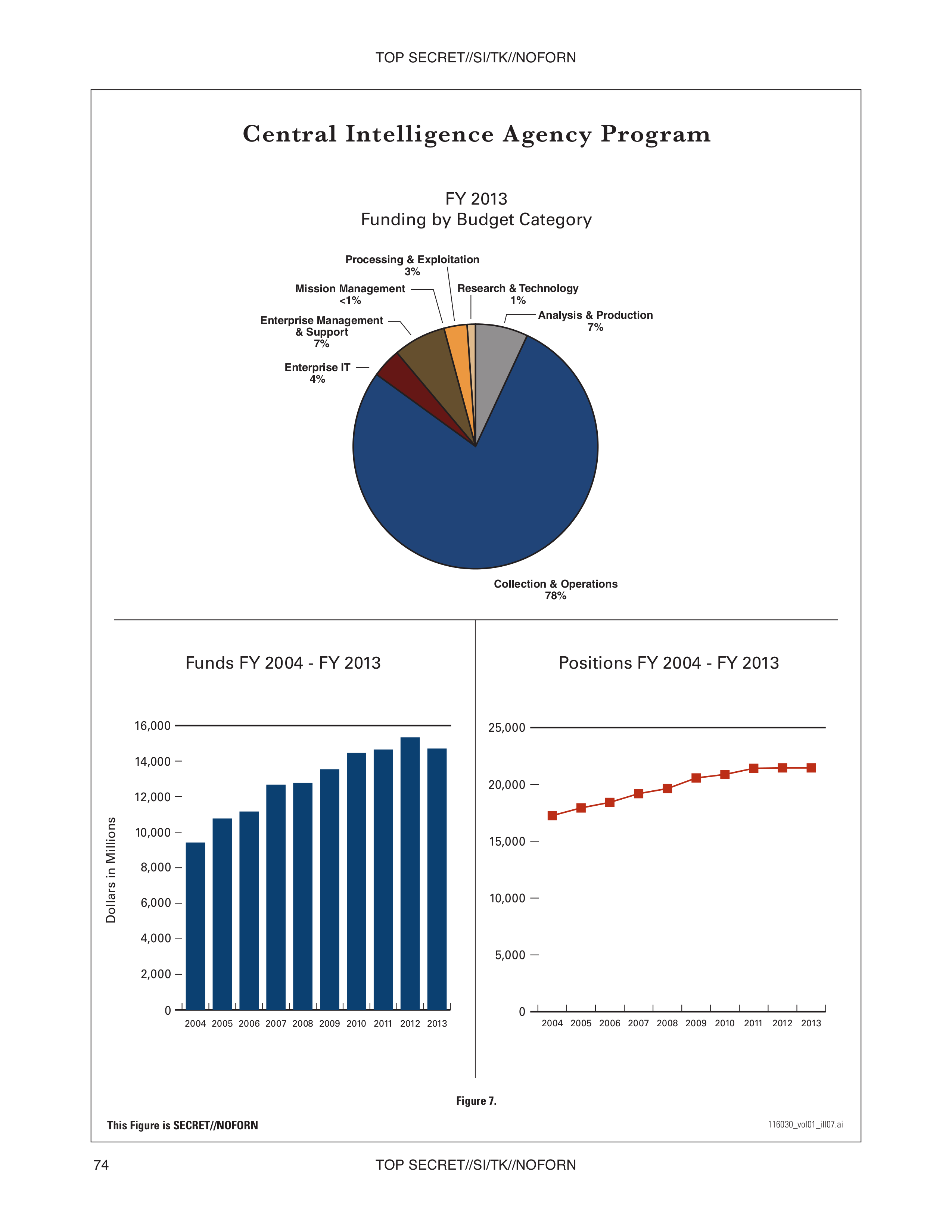 page 14 of Cbjb-fy13-v1